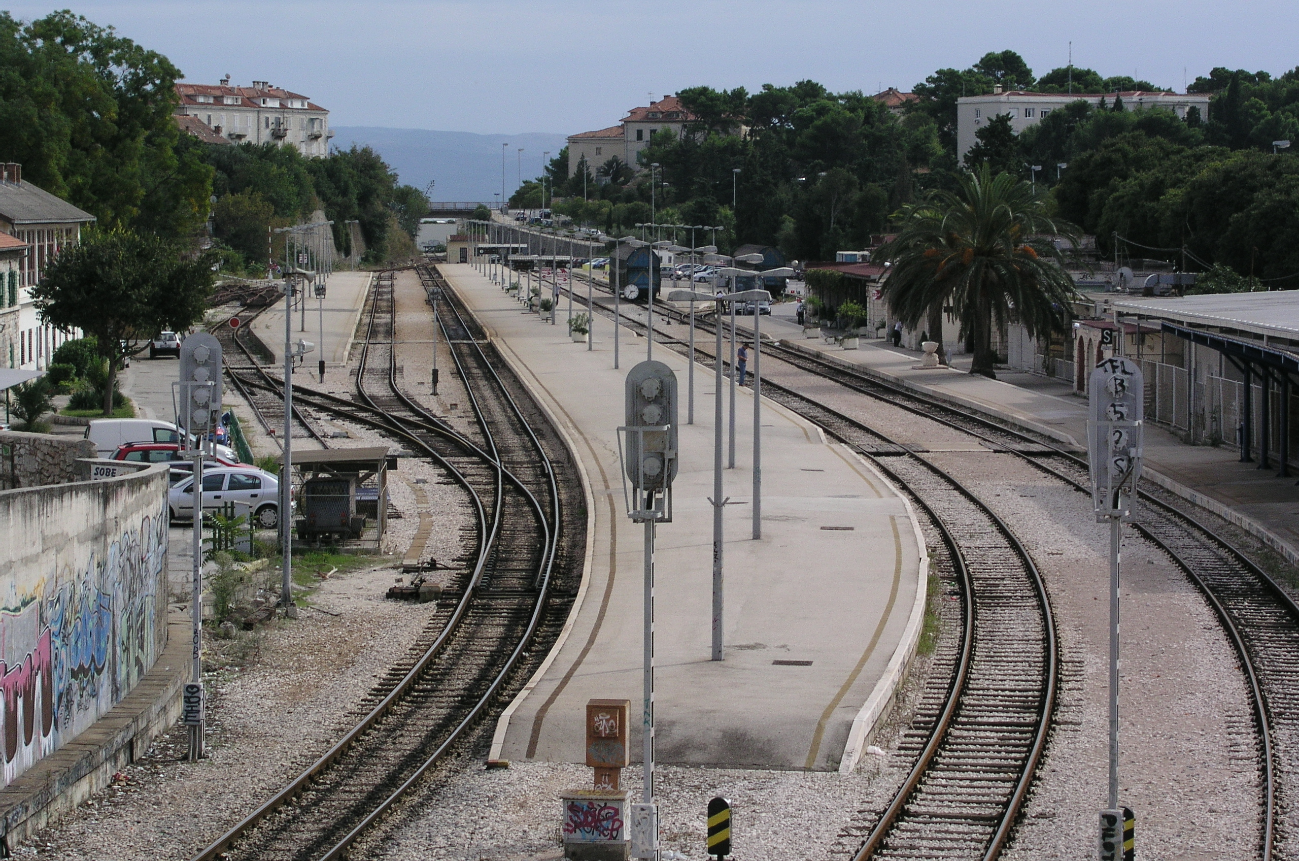 Split, Kolodvor, Croatia